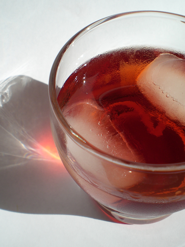 I often make these up in a cocktail glass, but I think it does just fine with a couple of ice cubes as well.